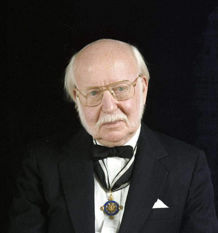 Gordon A. Craig: Scottish-American writer and historian